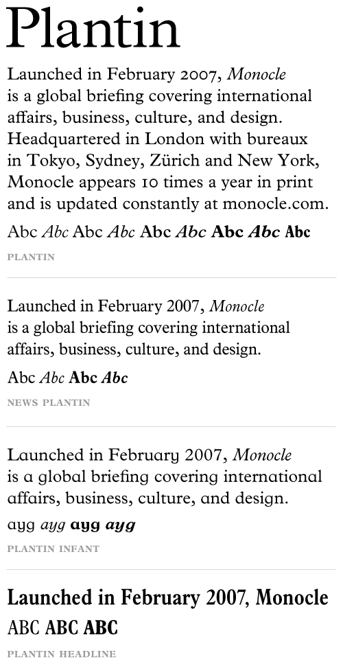 Plantin for Monocle